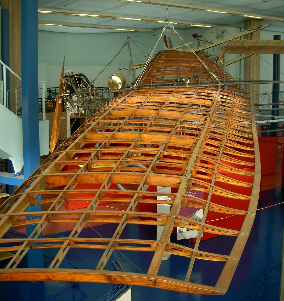 Wing structure of the R.E.P (Robert Esnault-Pelterie) Type D monoplane at the Bourget museum in France. This model was built under licence in Great Britain as the Vickers R.E.P. Type Monoplane.